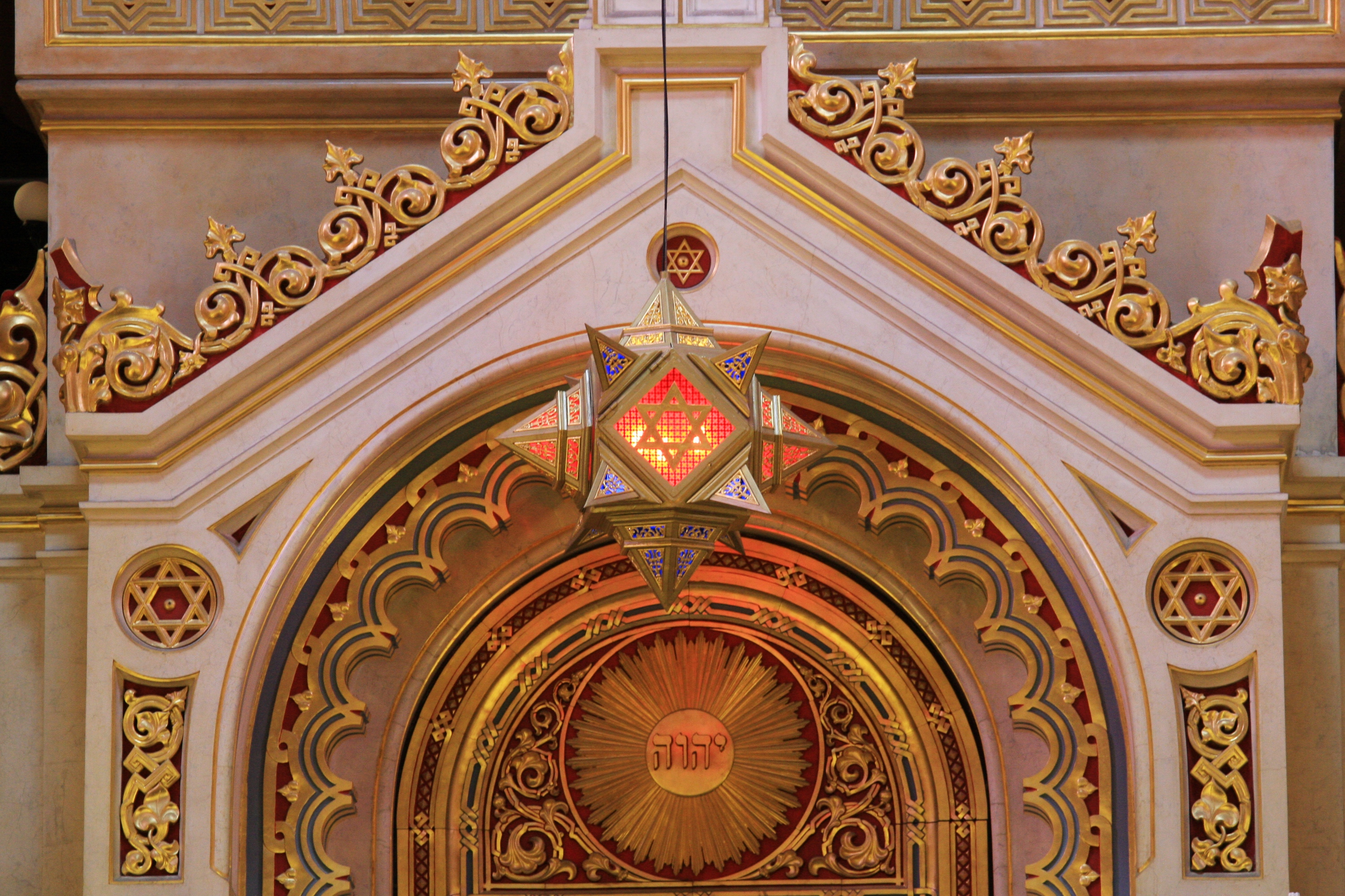 The Sanctuary lamp in the Dohány Street Synagogue in Budapest